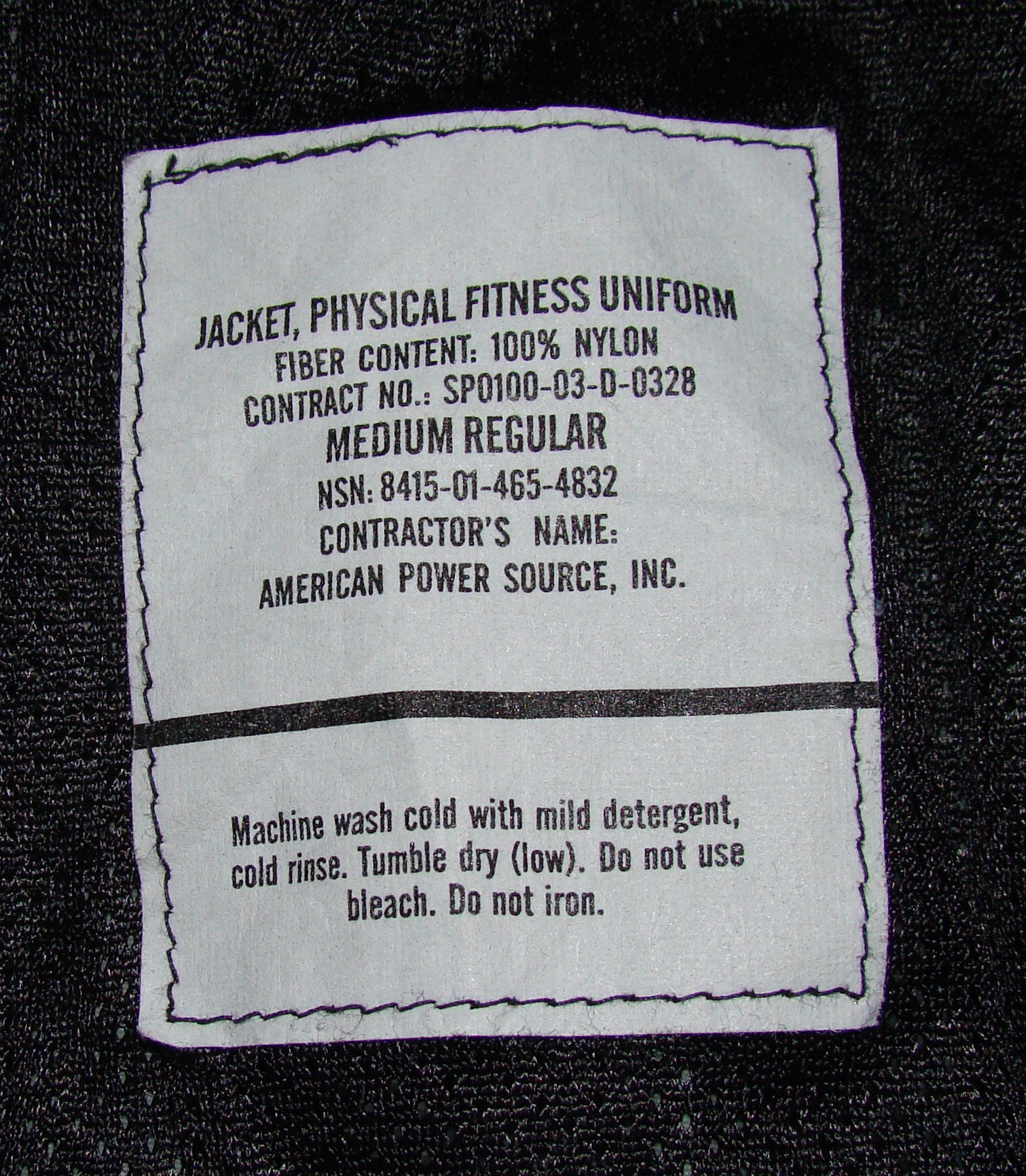 Jacket of Improved Physical Fitness Uniform - label